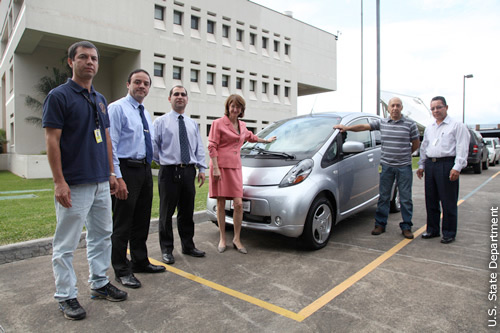 US Ambassador in Costa Rica Anne Andrew and a group of employees show the MIEV electric car